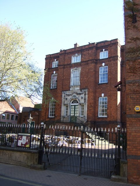 The Judges Lodging Now offers B&B to visitors.